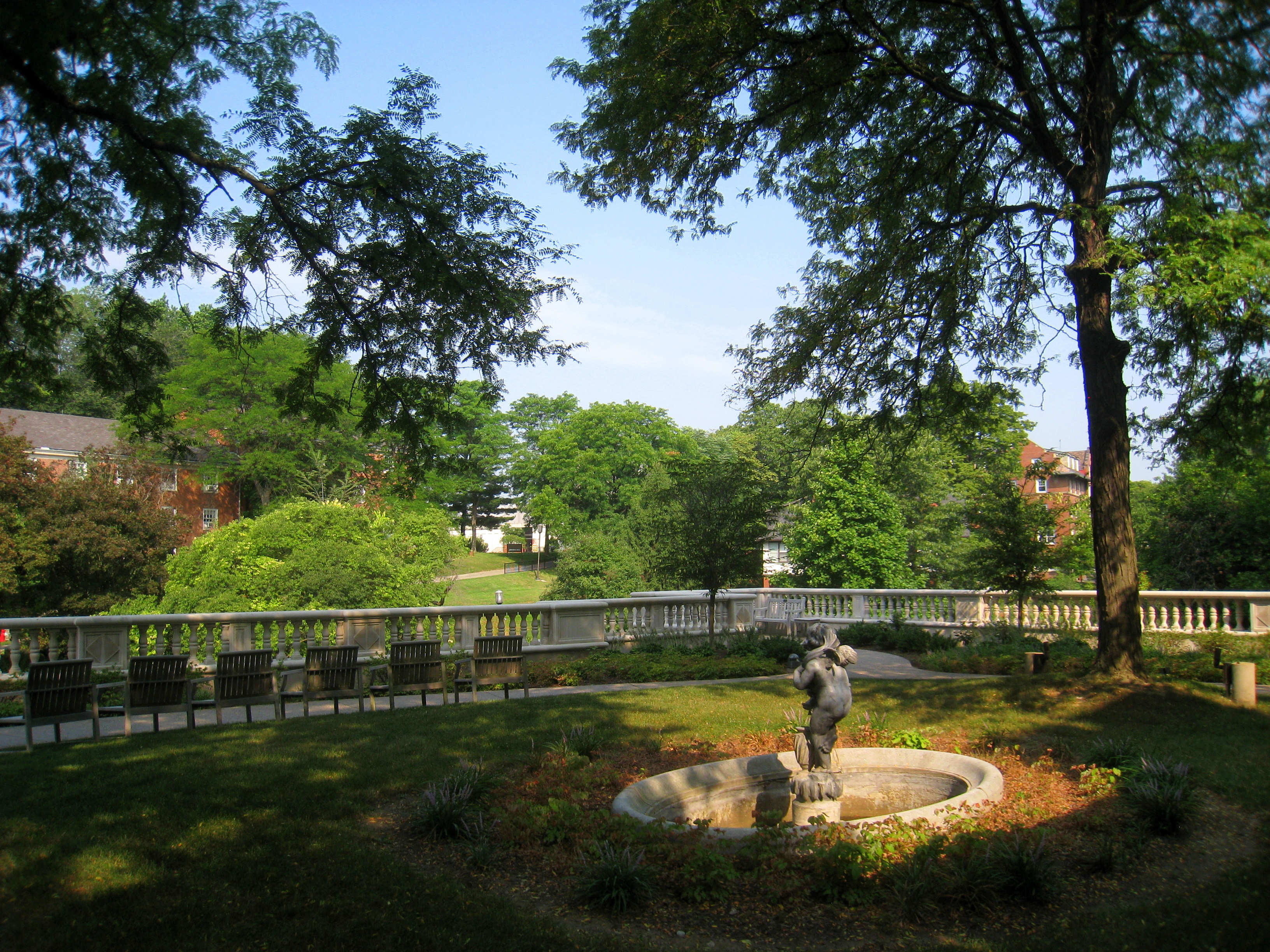 Chatham University, Pittsburgh, Pennsylvania, USA.